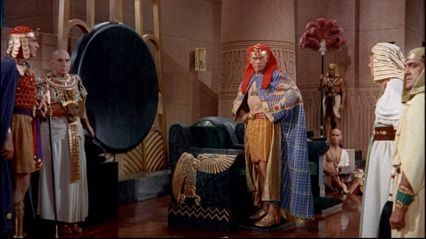 Screenshot from the trailer for the film The Ten Commandments.